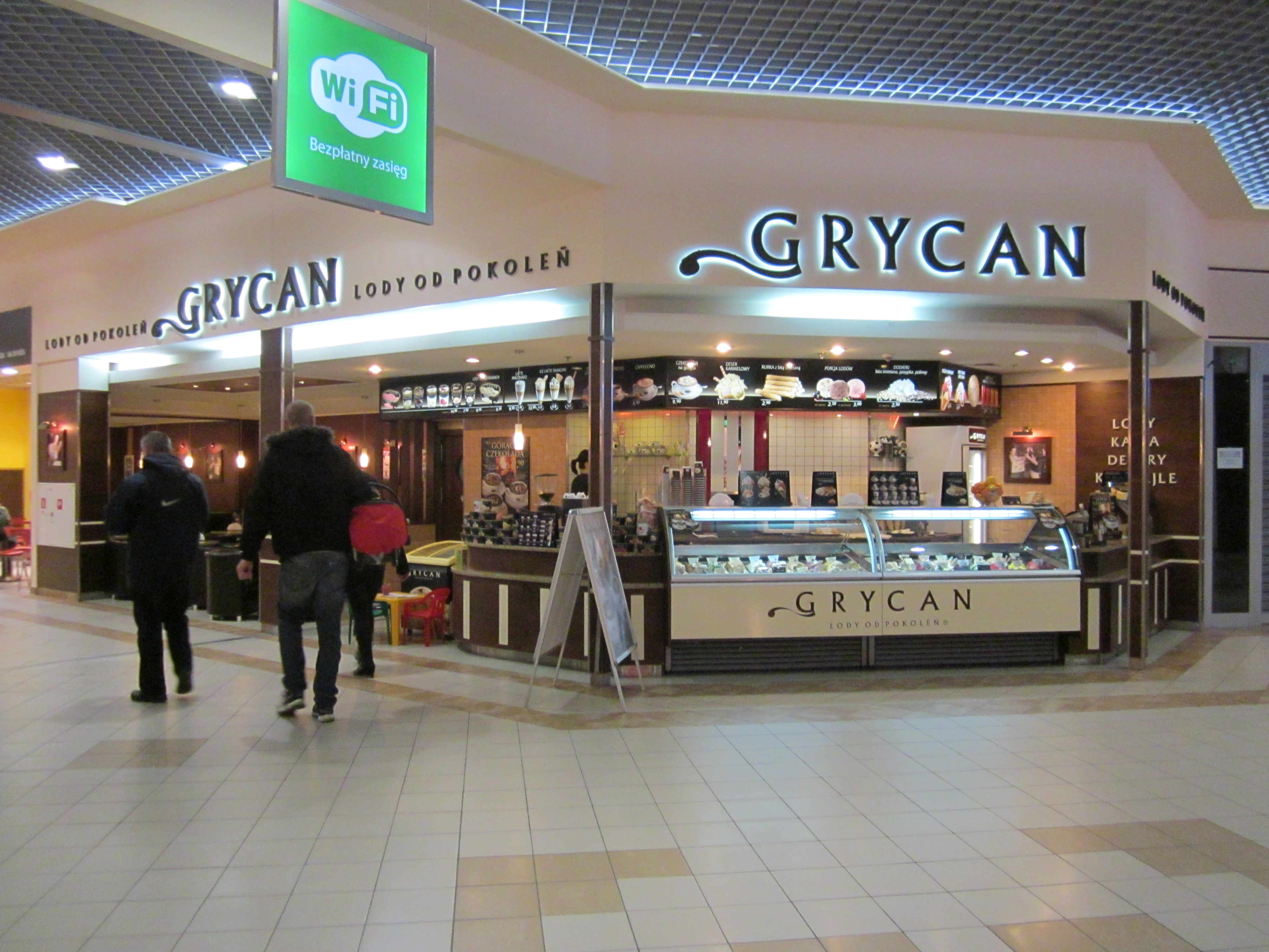 Interiors of Galeria Zielone Wzgórze, Białystok. Ice cream shops Grycan